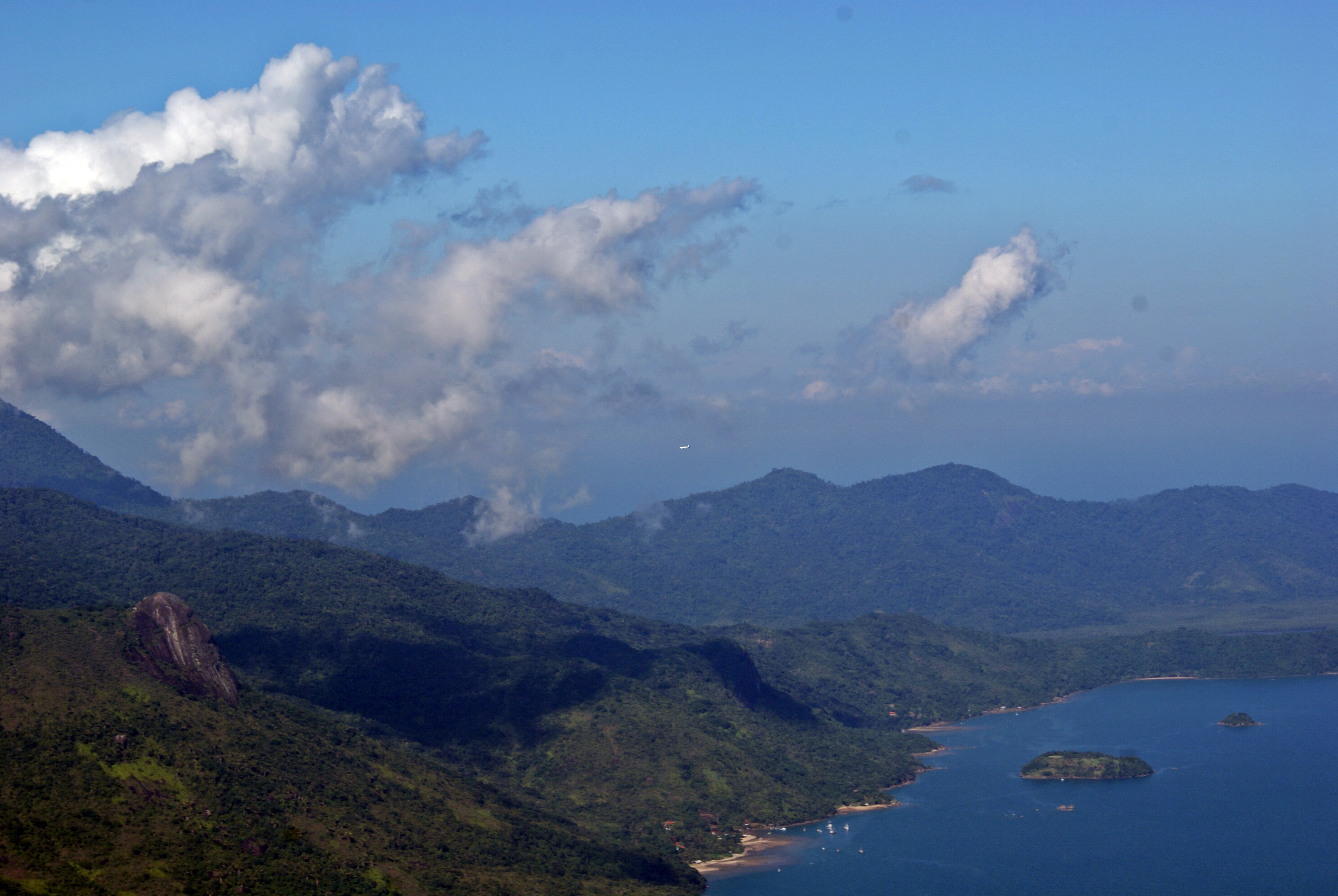 Aerial view of Serra do Mar, in Ubatuba, São Paulo coast.